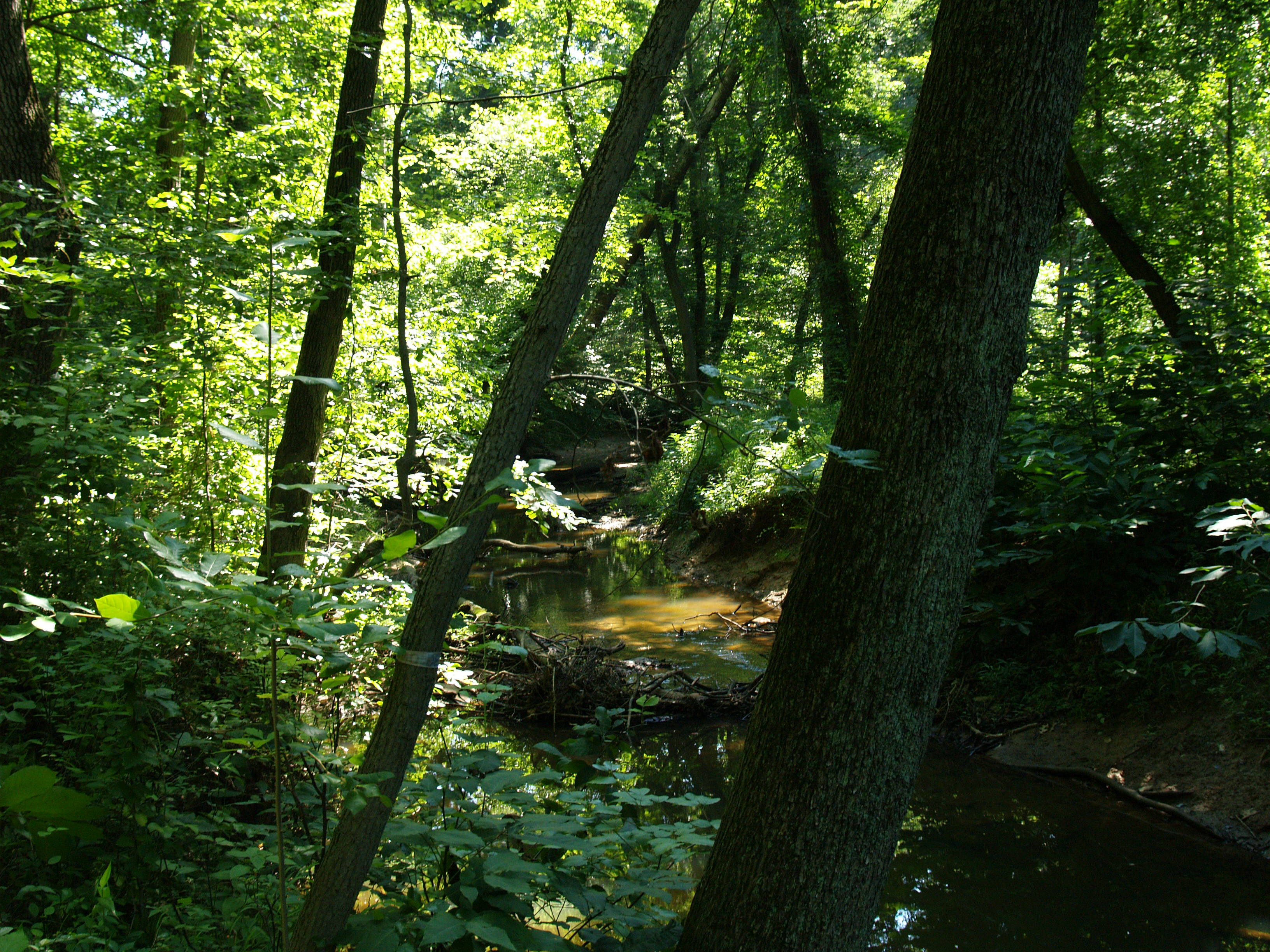 Muddy Run (Christina River tributary) south of Reybold Road in New Castle County, Delaware.